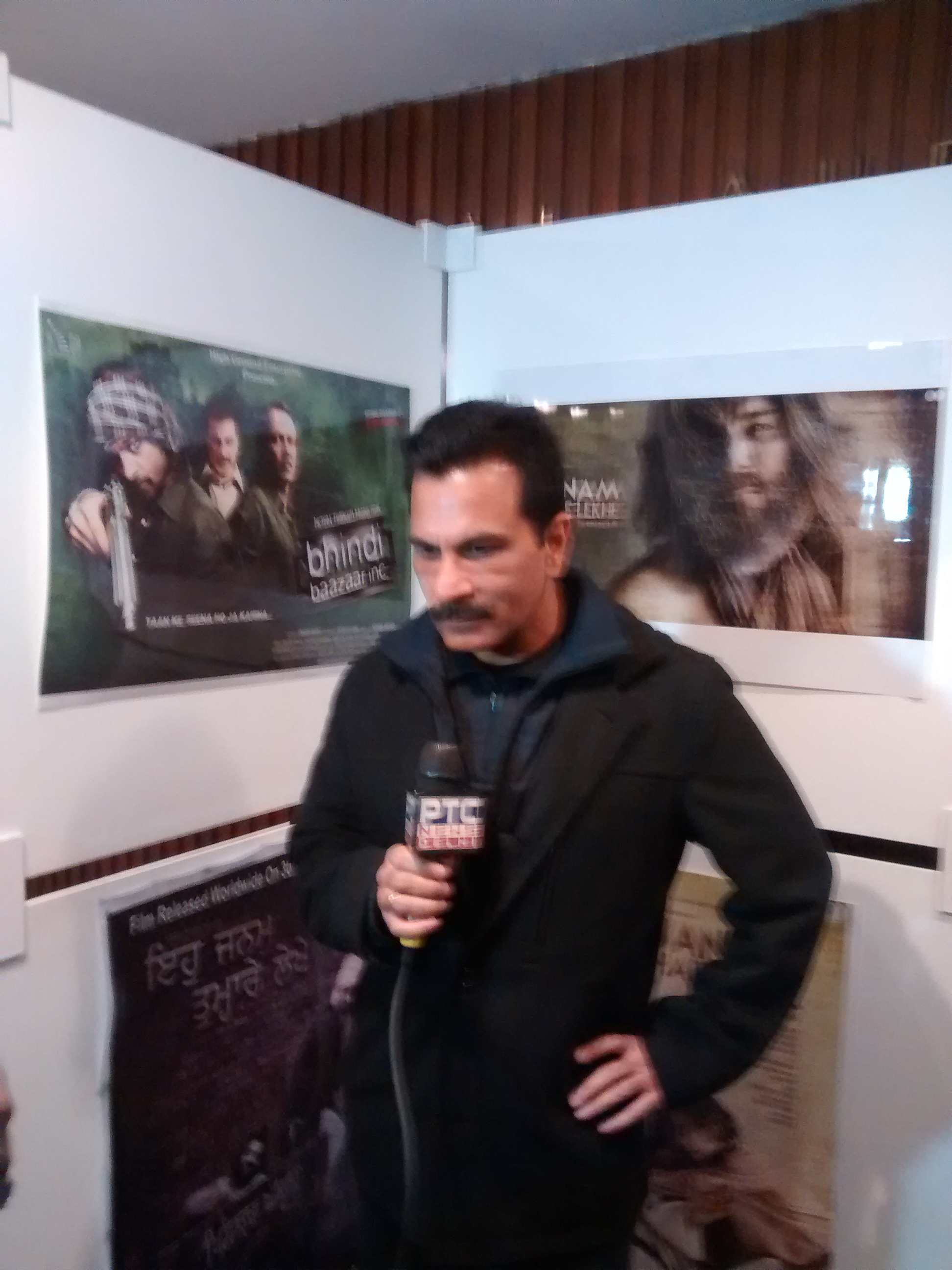 Pavan Malhotra at I am the Best Premiere. Photo: FilmiTadka.